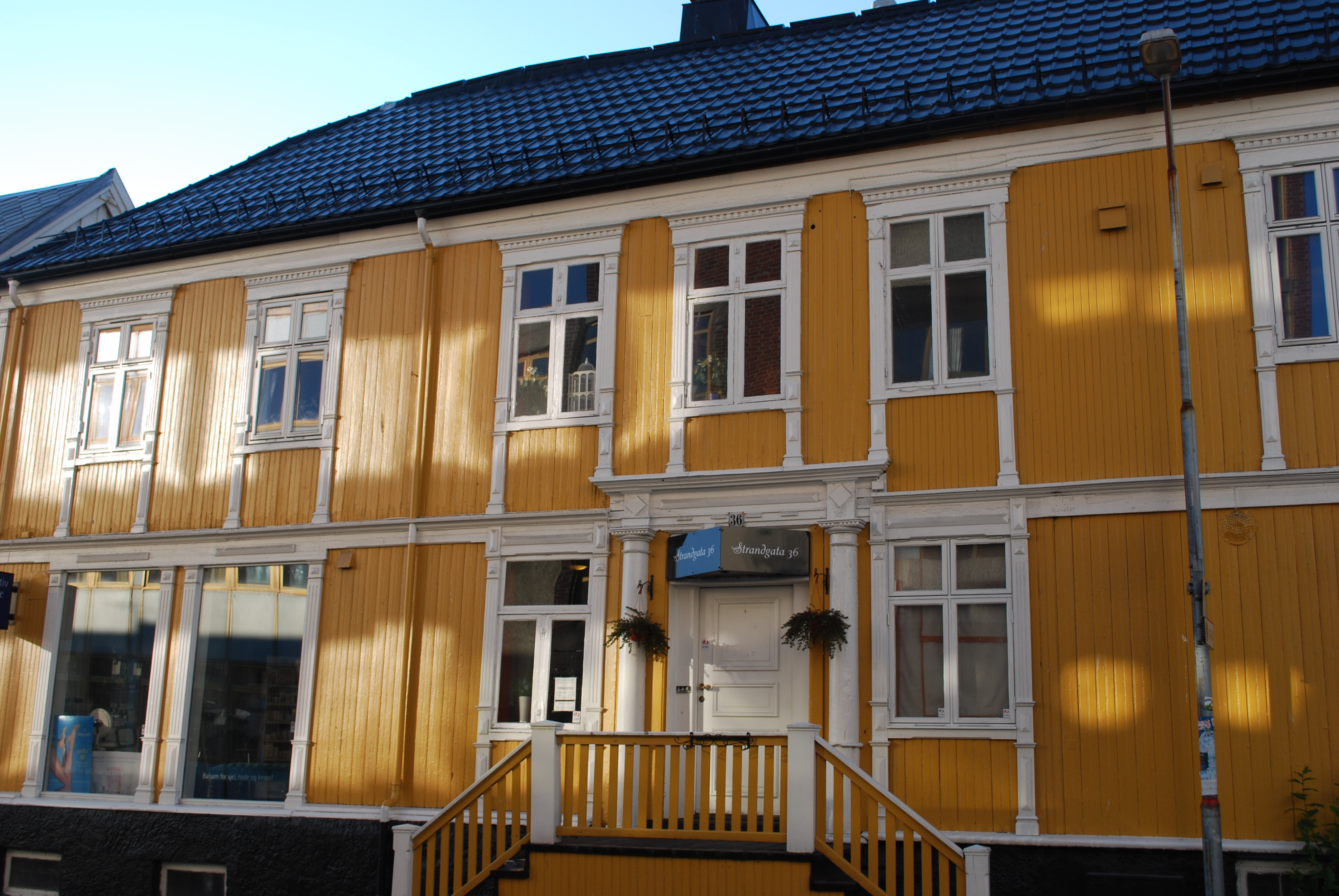 Empire style wooden house in Tromsø